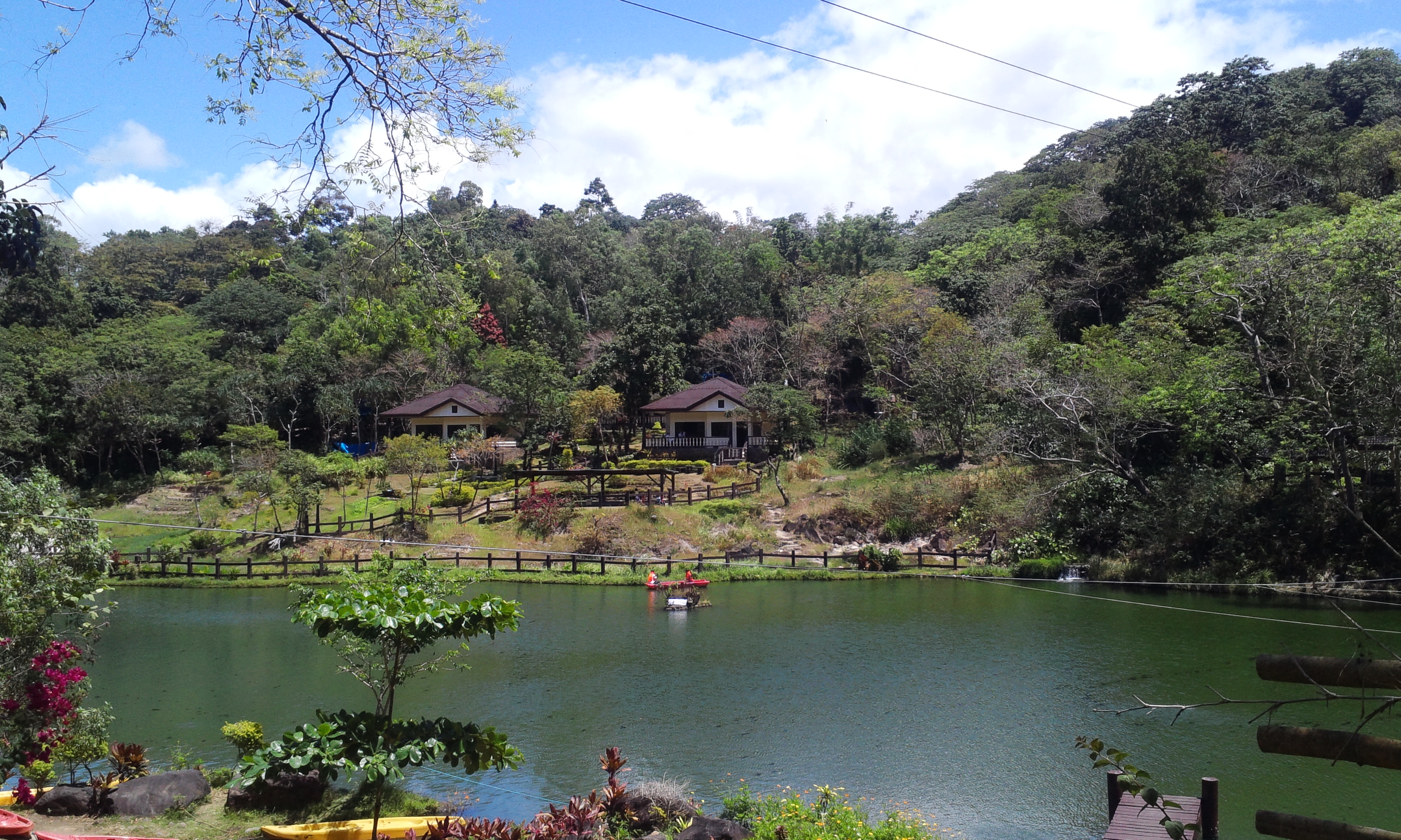 This picture was taken on March 15th, 2014 in a Mambukal resort.